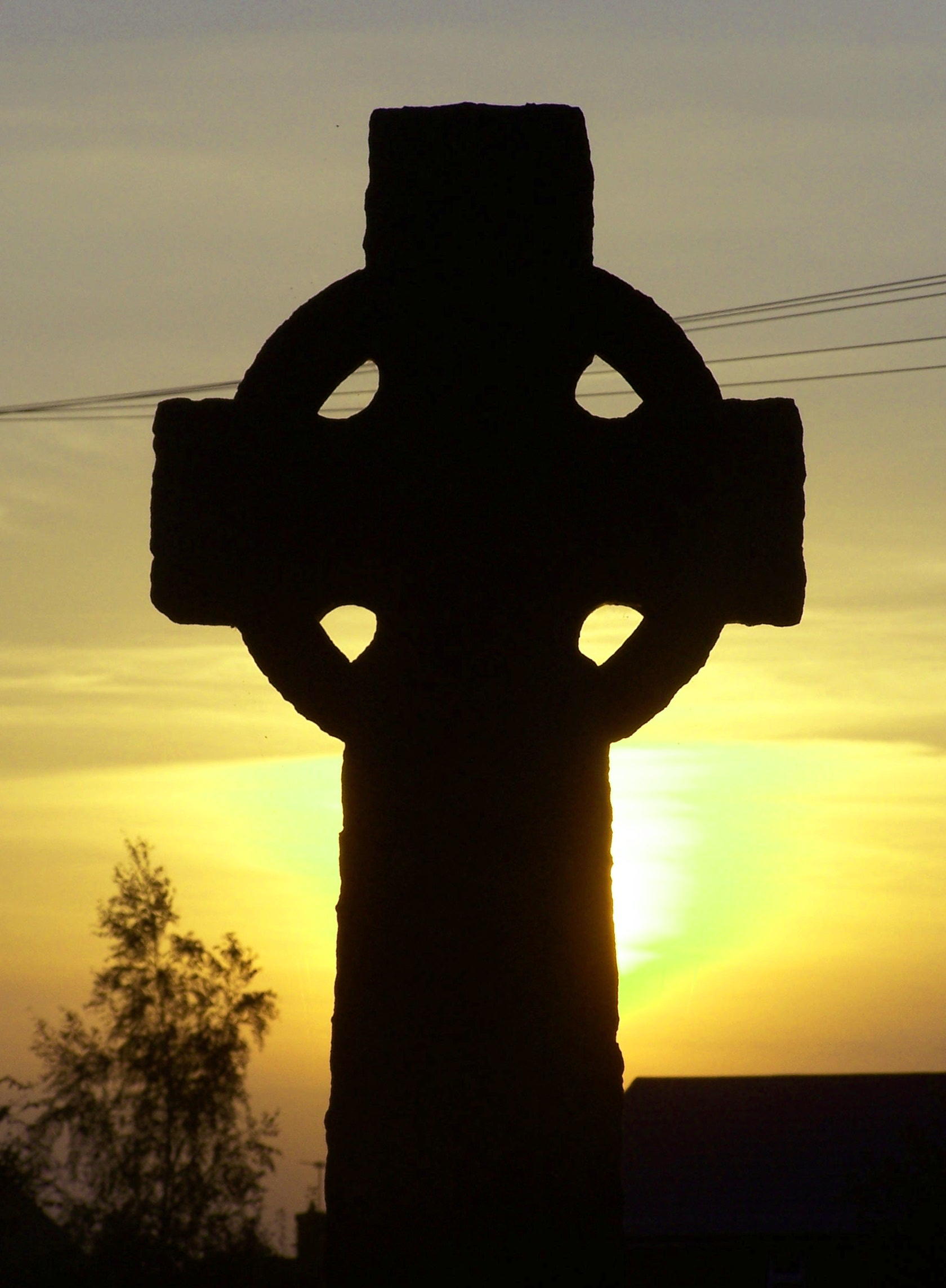 St Mary's Church War Memorial, Plumtree Notts UK